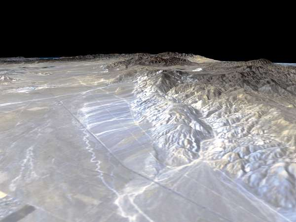 The Garlock Fault — running along the foot of the mountain ranges, from the lower right to the top center of this image, in Southern California. A left-lateral strike-slip fault zone running approximately northeast-southwest in the northern Mojave Desert. The Garlock Fault runs from a junction with the San Andreas Fault in the Antelope Valley (Los Angeles County), eastward (through Kern County) to a junction with the Death Valley Fault Zone in the Eastern Mojave Desert (San Bernardino County).